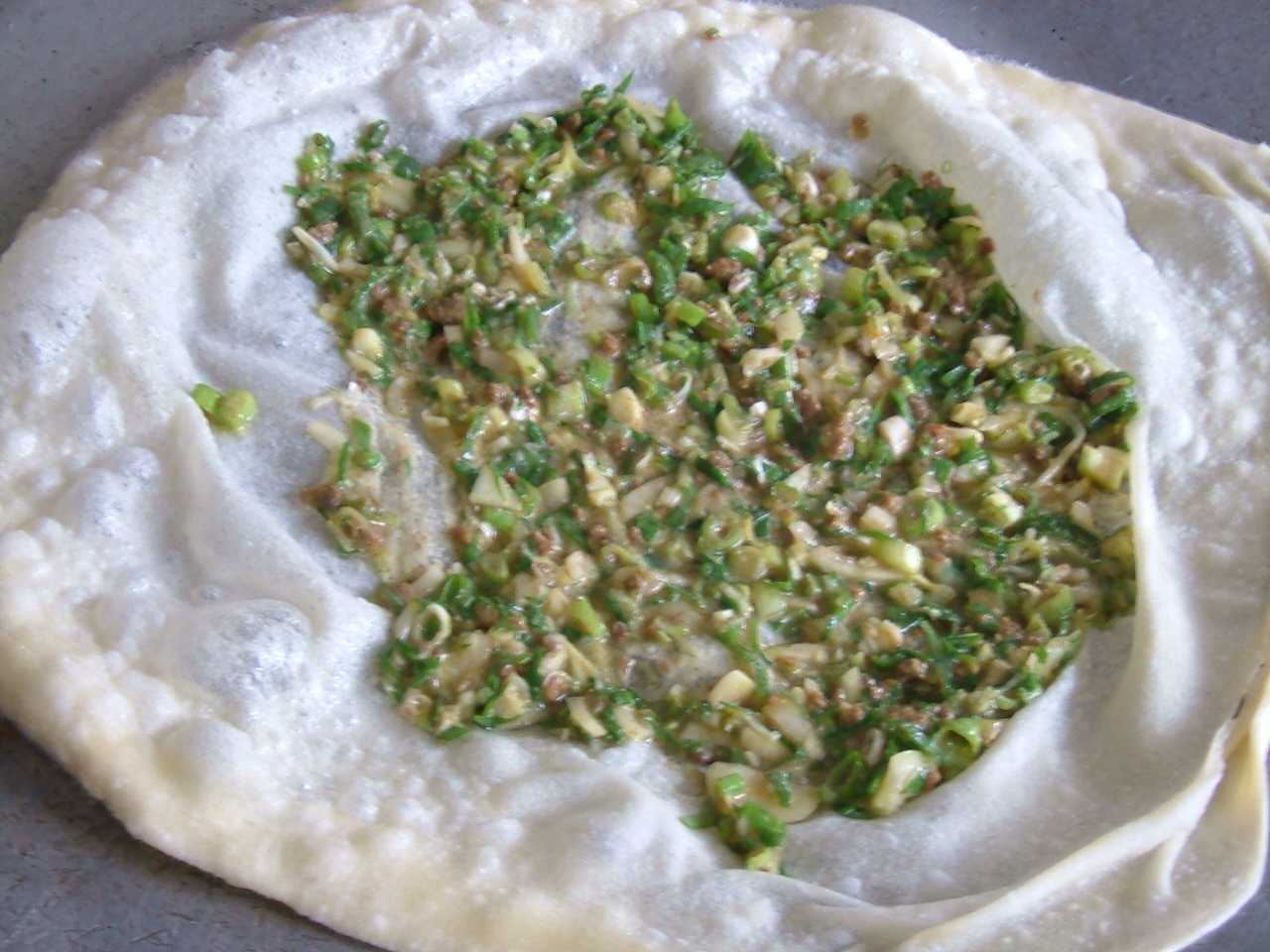 Martabak telur in the frying pan.